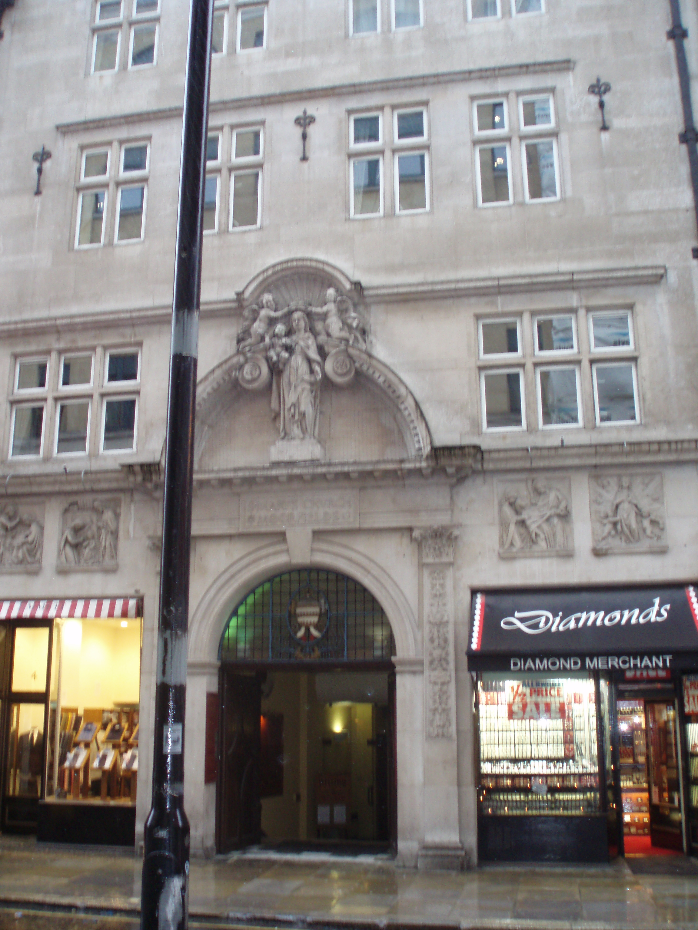 Photo taken 23rd Aug 2007